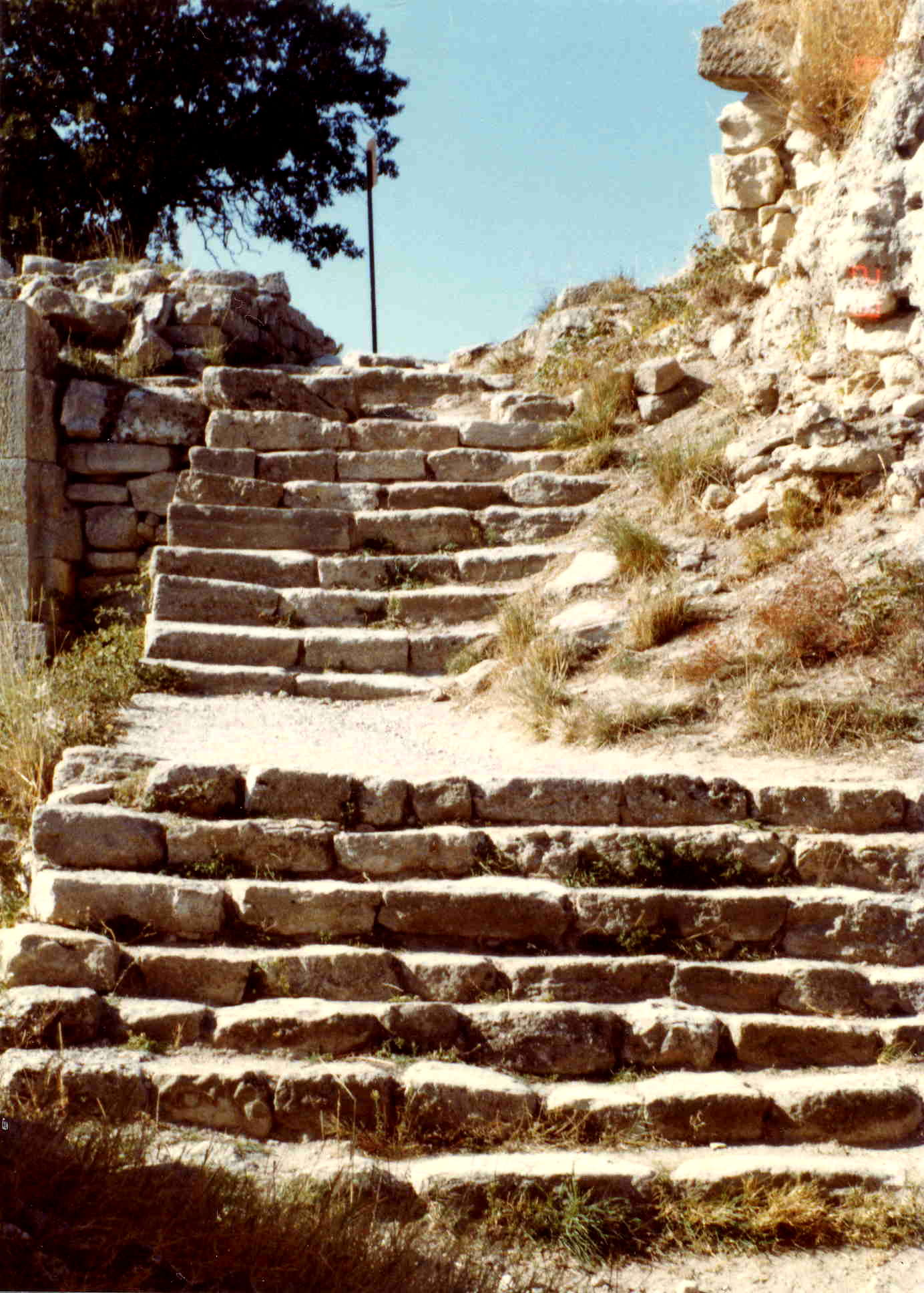 Ancient stone steps - worn down by feet 5,000 years ago in Troy. In present day Hissarlik, Turkey.Salalah to Somerset 1982 : Turkey